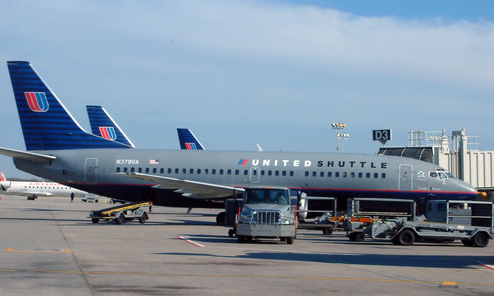 Color-corrected version of Image:UnitedShuttle737.jpg; former United Shuttle Boeing 737 parked at a gate at Philadelphia International Airport